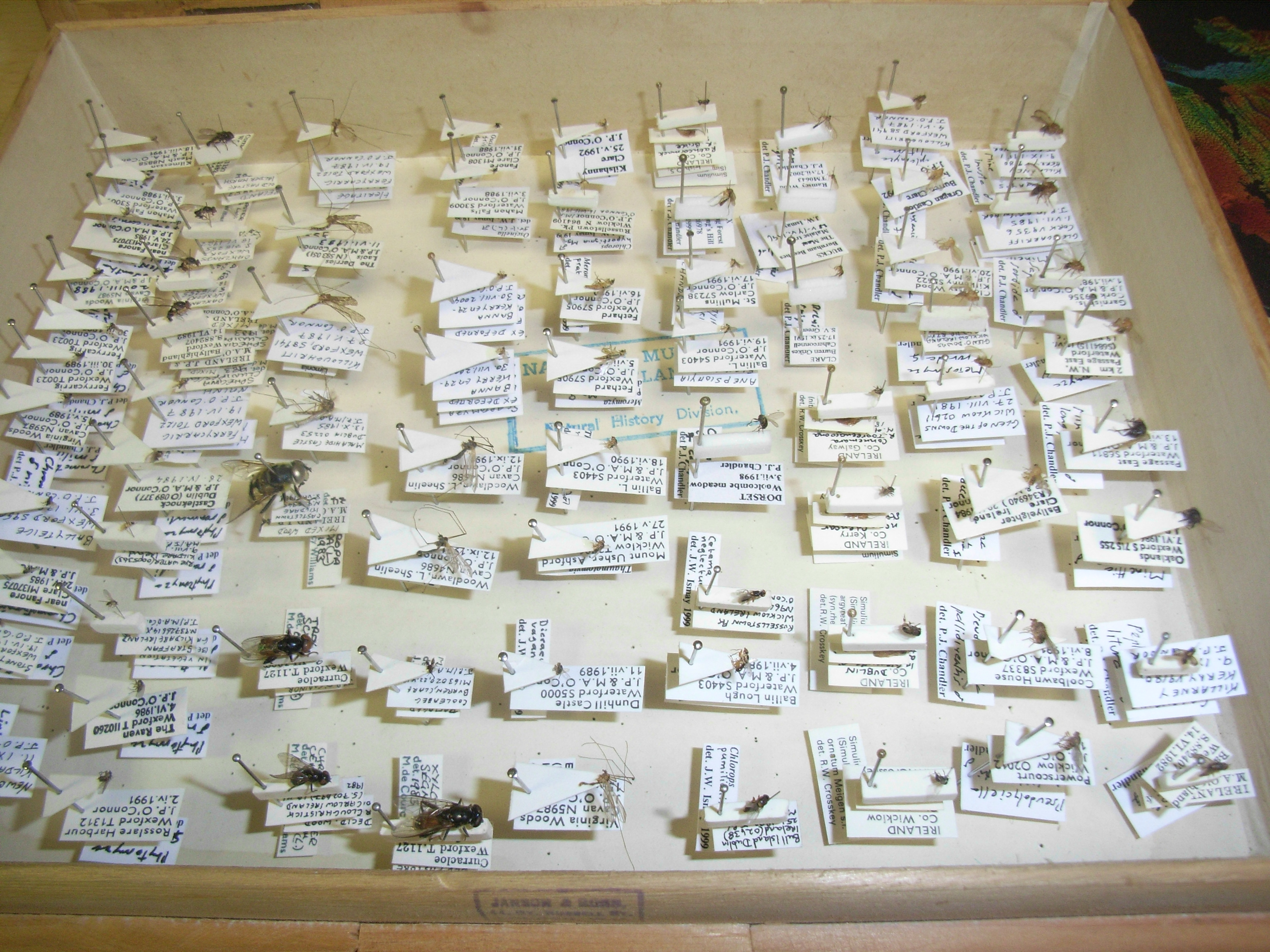 Diptera in a cork-bottomed paper-lined wooden "storebox" (a cork-bottomed, paper-lined high quality wooden box with a tight fitting lid) for temporary storage or consignment.Note the age of the box which was supplied by the company owned by Edward Wesley Janson [1] (1822-1891). With one exception, the preserved dry specimens are too small to be pinned directly on "standard" pins and are pinned as double mounts.Double- mounting refers to the insect’s being mounted on a minuten or card point, which in turn is mounted on standard insect pin. Minutens are 10 and 15- mm lengths of stainless steel many thicknesses. Minuten are finely pointed at one end, headless on the other. These double mounts were assembled by inserting the minuten into a small strip of polyporus, a pure white material obtained from a bracket fungus.Other duuble-mounted specimens are glued to white card triangle called "points". Some specimens are pinned laterally, others are pinned vertically. All the specimens bear data labels, either printed or handwritten with Indian ink and determination labels ("det. means determined or identified by. Note the date (year) after the determination authorities name. For a closer view look here [2]